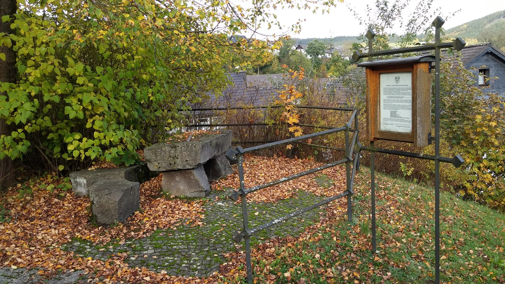 Züschen Freistuhl